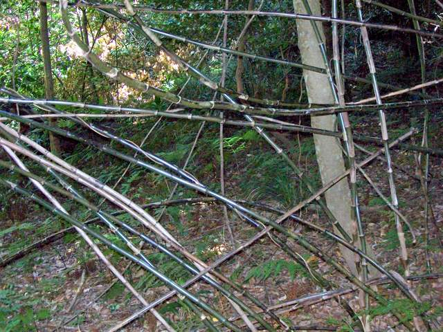 Flagellaria indica at Royal National Park, Australia (southern most limit of natural distribution)